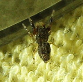 Ballus chalybeius from Cologne, Germany, caught in late September 2006. The spider is 3 to four millimeters long (without legs). Sorry for the bad resolution, this is the limit of my camera :( Identification by Barbara Thaler-Knoflach.